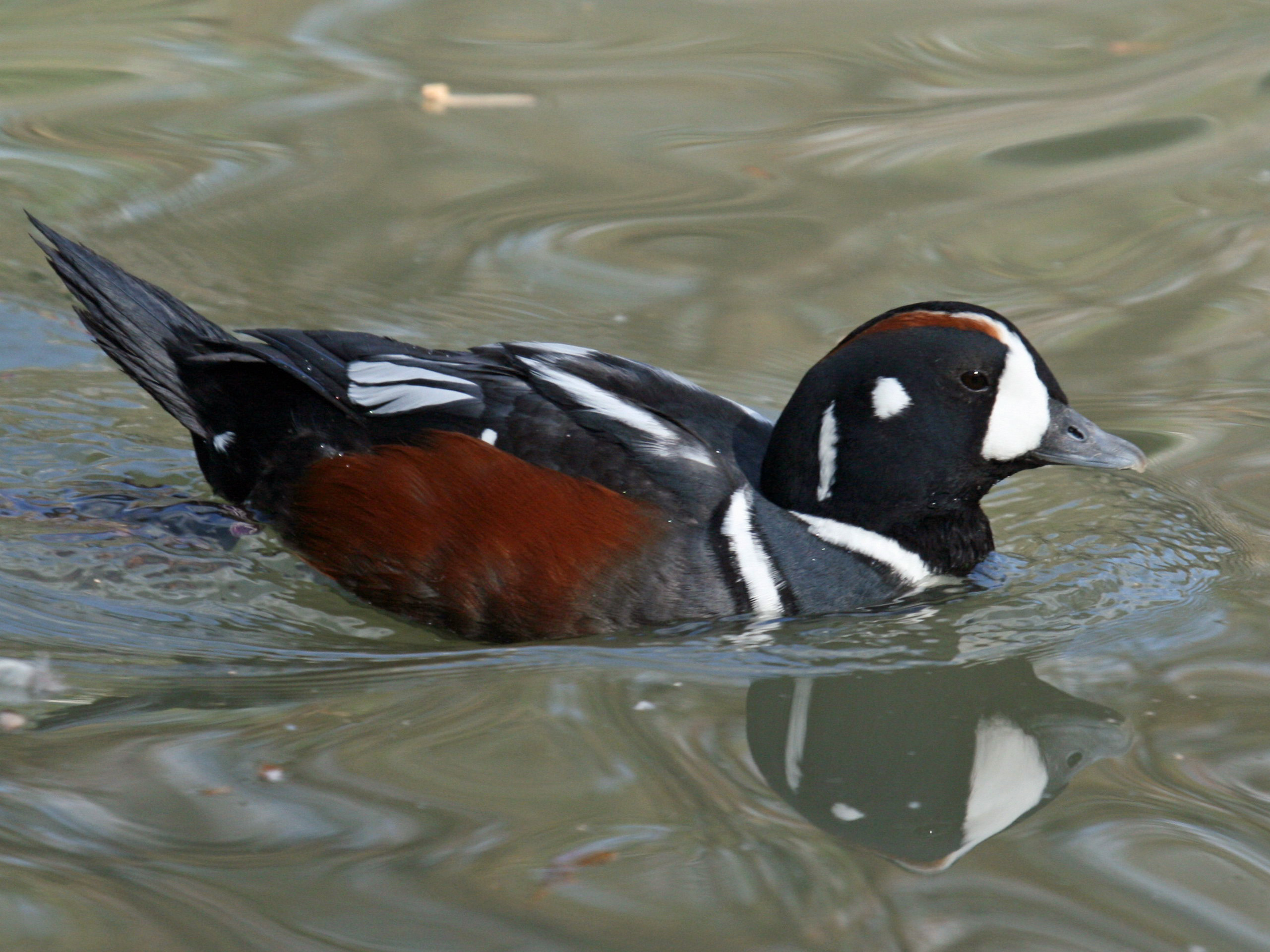 Harlequin Duck (Histrionicus histrionicus) at Sylvan Heights Waterfowl Park in Scotland Neck, North Carolina.